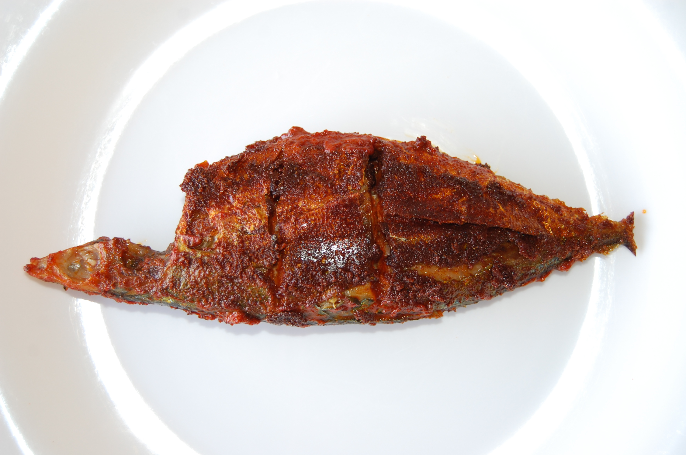 Indian Mackeral Fry